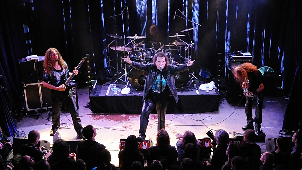 French death metal band Misanthrope performing in Paris, France, in 2013. From left to right: Anthony Scemama, Phillipe De L'Argilière, Jean-Jacques Moréac. On the back: Gaël Féret.